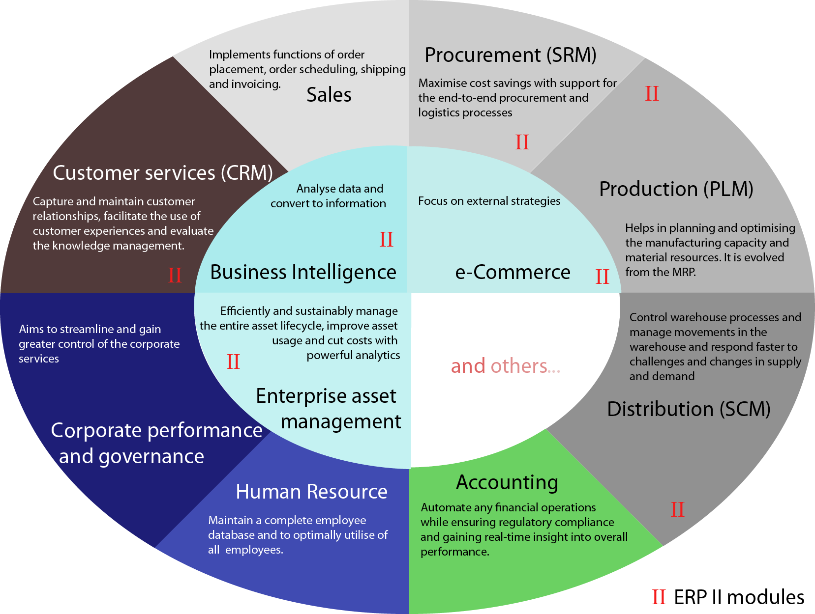 Enterprise systems modules.